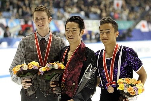 Jeremy Abbott (2), Daisuke Takahashi (1) and Florent Amodio (3) at the 2010 NHK Trophy.